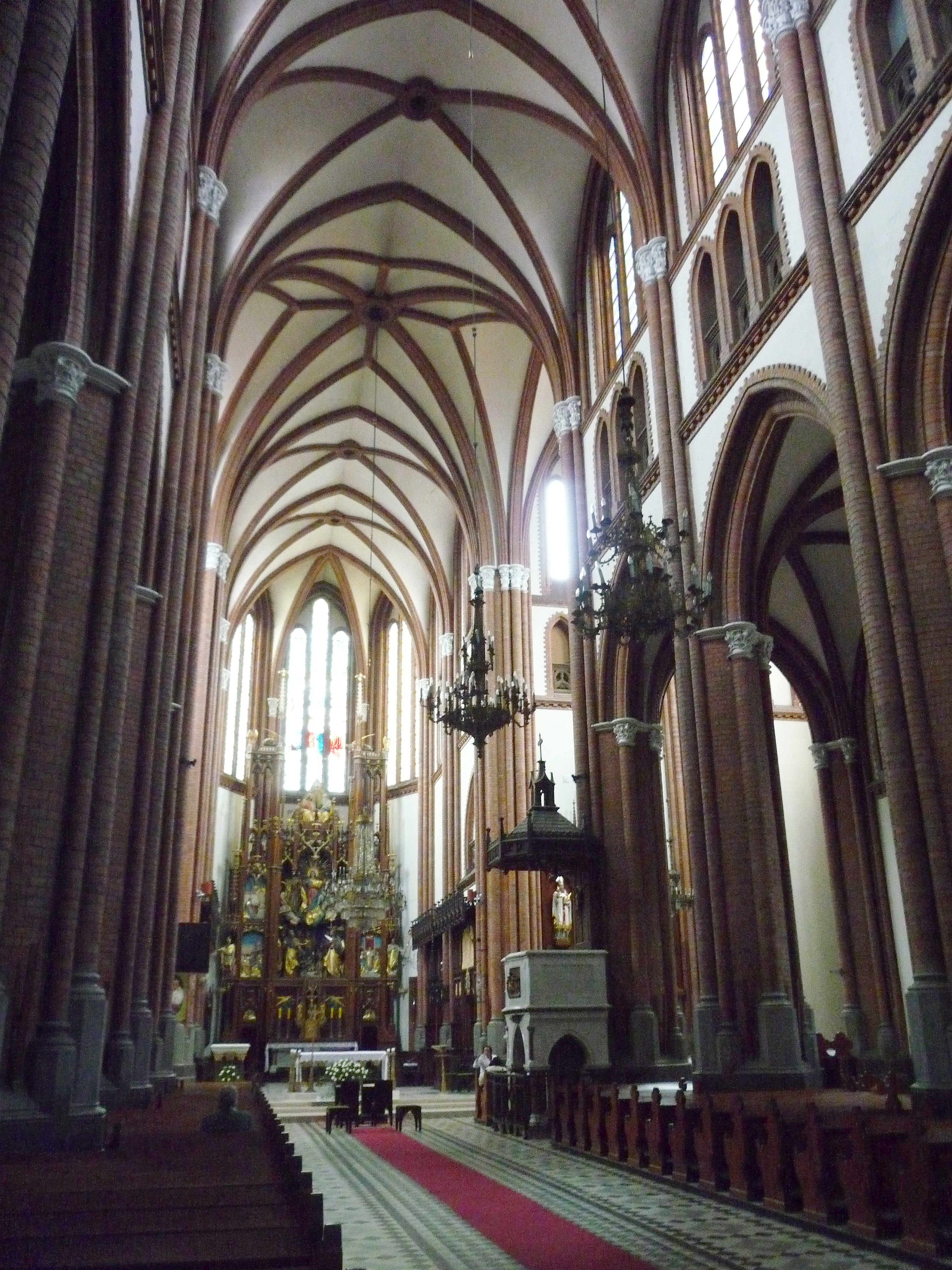 Białystok - interior of the catholic cathedral of the Assumption of the Blessed Virgin Mary